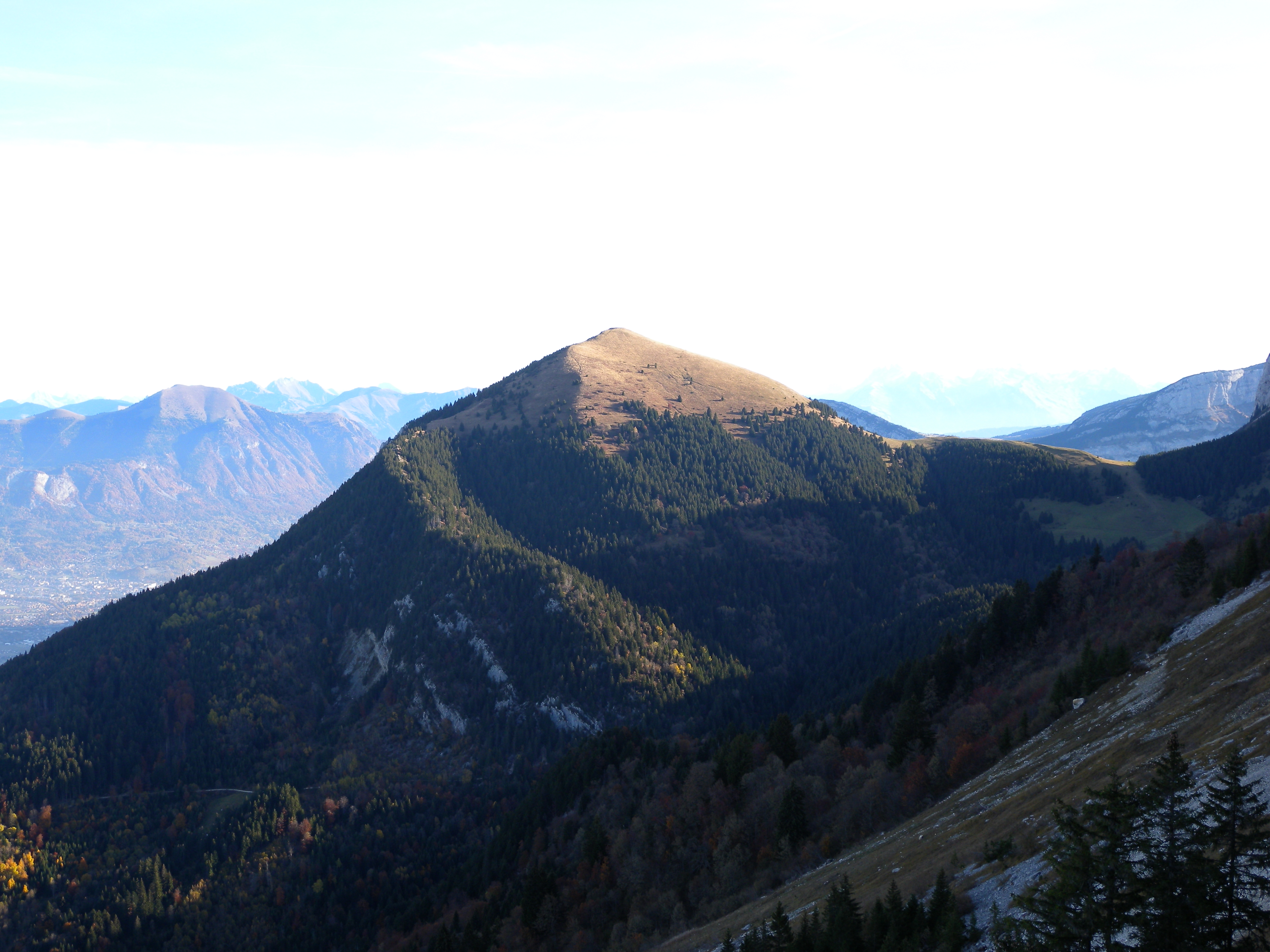 Sur Cou (1809m) Mountain